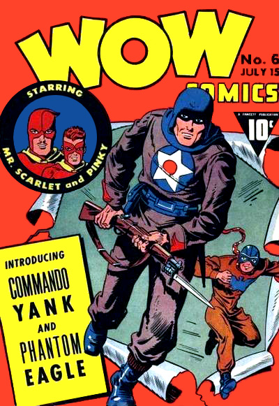 Cover, "Wow Comics" #6 (Fawcett Comics, July 15, 1942). Artist unknown. Pictured: Mr. Scarlet and Pinky, Commando Yank, Phantom Eagle